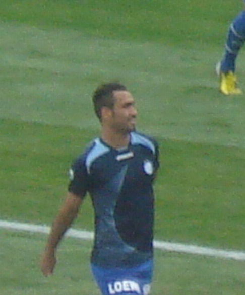 Siavash Akbarpour, Esteghlal-Damash match, 2012-13 Iran Pro League